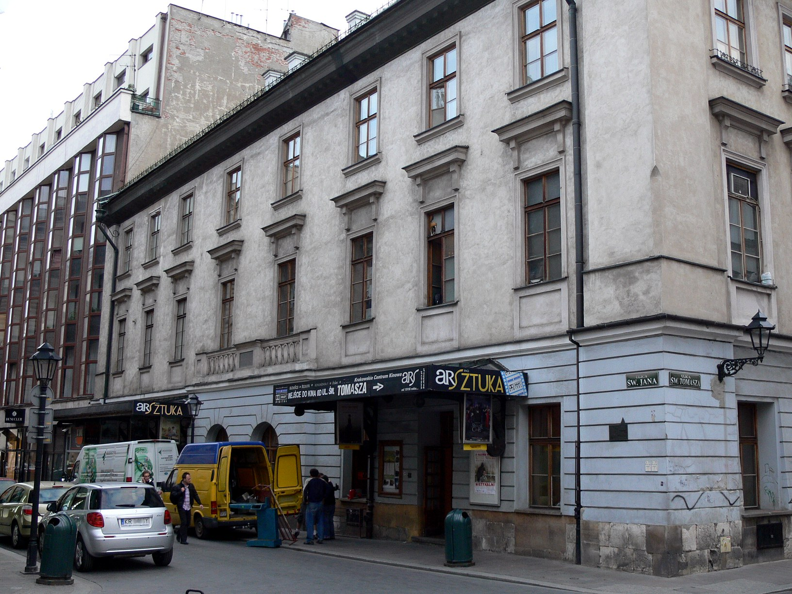 Kino ARS Sztuka in Kraków, Poland